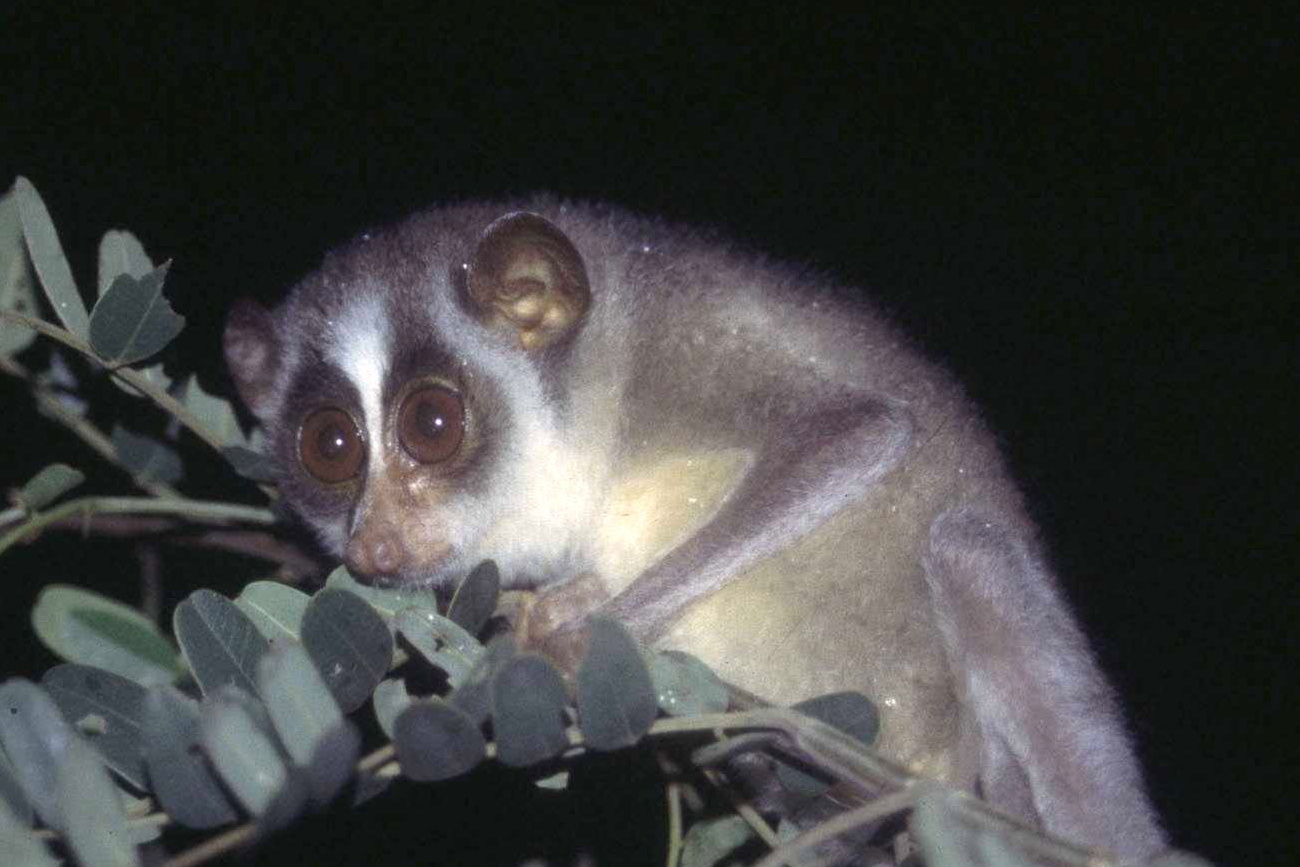 Gray slender loris (Loris lydekkerianus nordicus) from Northern Sri Lanka (Trincomalee)